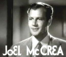 Cropped screenshot of Joel McCrea from the trailer for the film Woman Wanted